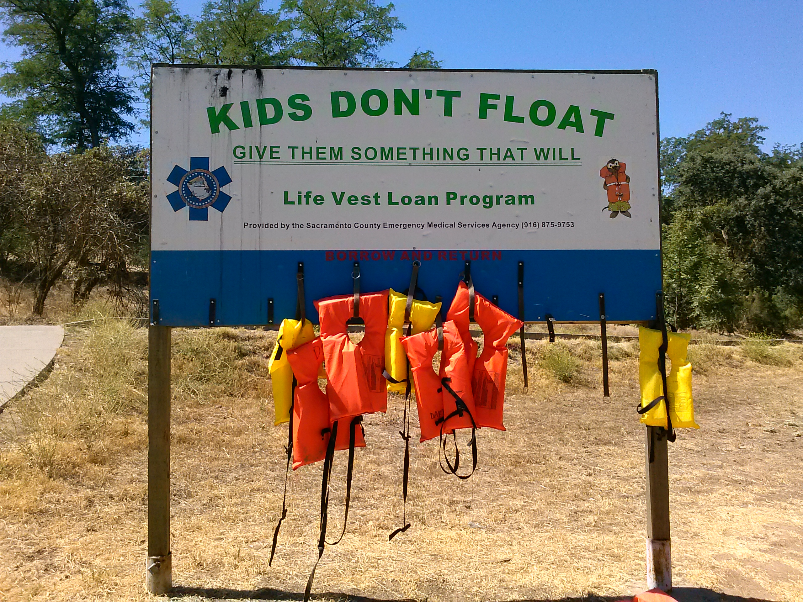 Yellow and orange life jackets on display for the borrow and return program at the American River Access Park at the La Riviera Drive location in Sacramento, California.